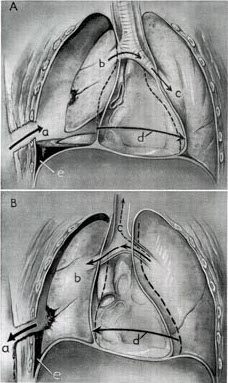 The mechanics of a sucking chest wound. Caption is "FIGURE 2.—Schematic showing of pathologic physiology of sucking chest wound. A. Entrance of air into chest on inspiration through wound in chest wall (a), the amount of air being directly proportional to the size of the opening as compared with the surface area of the open glottis. Collapse of lung on affected side (b), with passage of air out of affected bronchus. Entrance into bronchus of some air from collapsed lung (c), with passage to intact lung. Shift of mediastinum toward uninvolved side (d), hemothorax (e). B. Escape of air on expiration through sucking wound of chest wall (a). Expansion of collapsed lung (b). Passage of air from uninvolved side to lung on involved side, thence out trachea (c), producing the so-called pendular breathing. Shift of mediastinum to involved side (d). Hemothorax (e)."